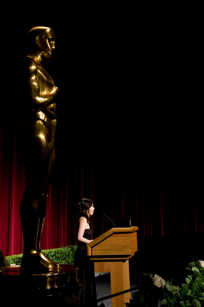 Shih-Ting Hung wins Student Academy Awards Viola: The Traveling Rooms of a Little Giant